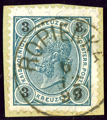 Austrian KK stamp, 3 kreuzer cancelled at ROPIENKA in 1893 (Galicia, Poland) - In the LISKO county (now Lesko County